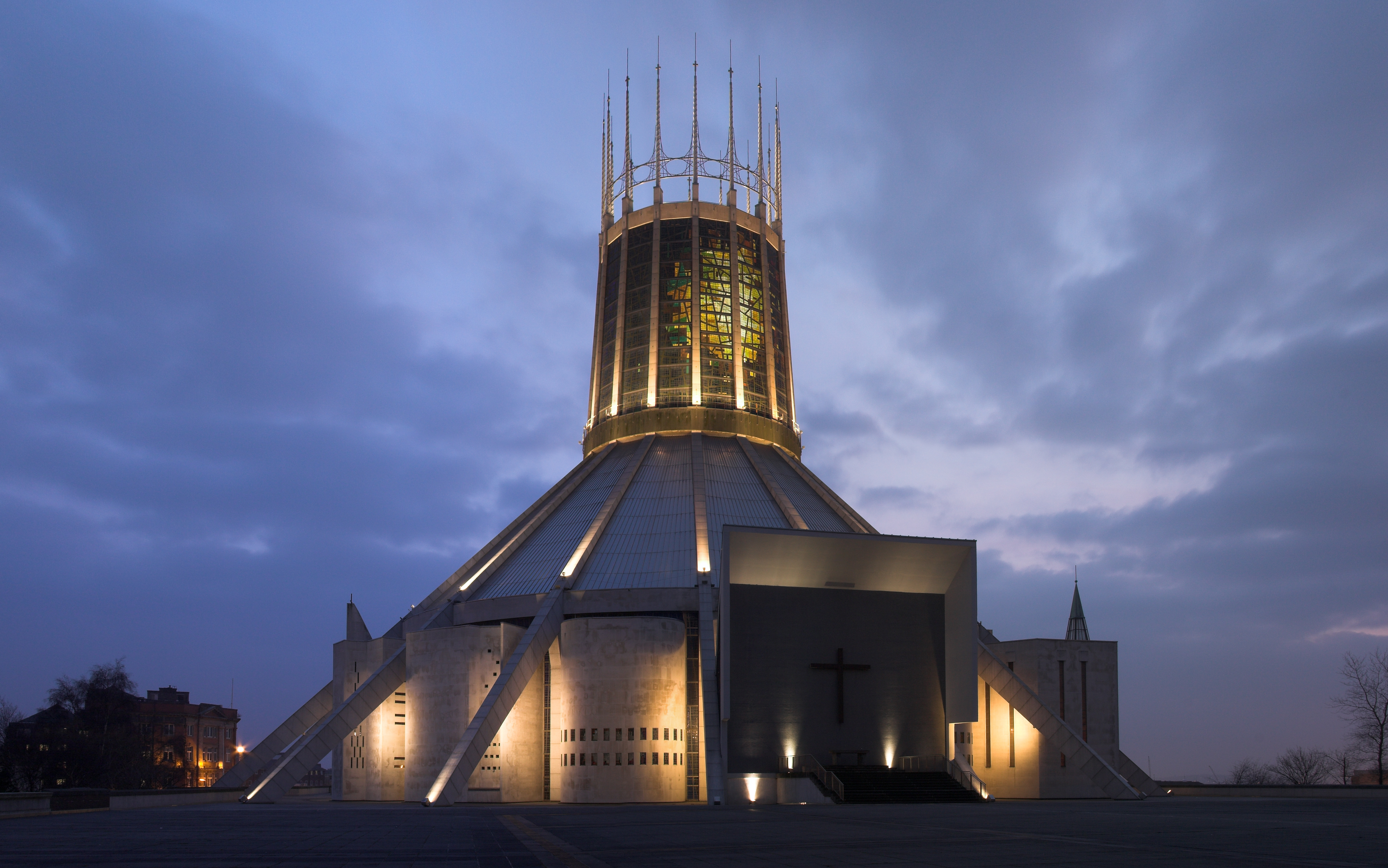 Liverpool Metropolitan Cathedral at dusk.